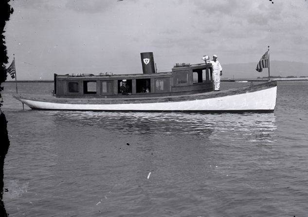 Title: Waterwitch Subjects: Boats ; People